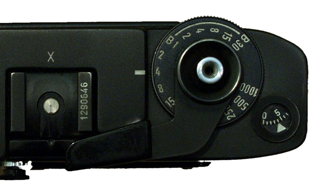 Leica M5 2-Lug Shutter Speed Dial Detail